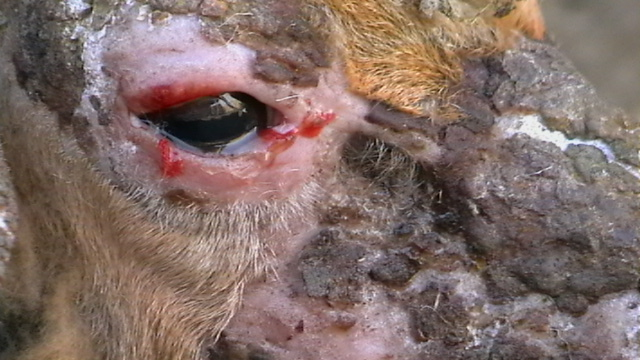 Photosensitization to Hypericum tomentosum in a lamb : severe lesions around the eye. Note that cornea is not envolved Walon: Fototinrûlijhaedje a cåze del boylete : gråves damadjes åtoû d' l' ouy ey al pea del tiesse. Li cornêye n' est nén acsûte.